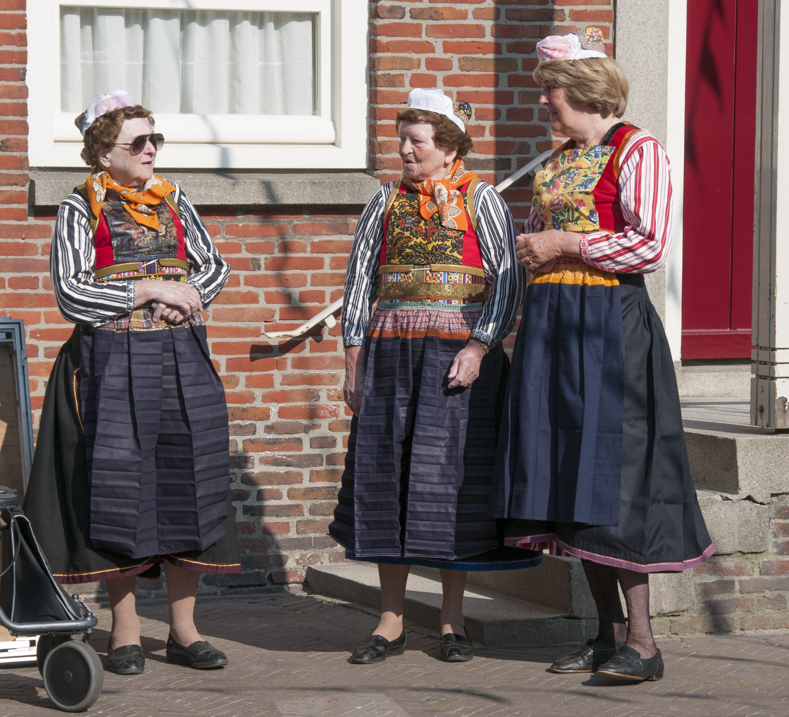 Woman in Marken in traditional dress during Queens day celebrations.